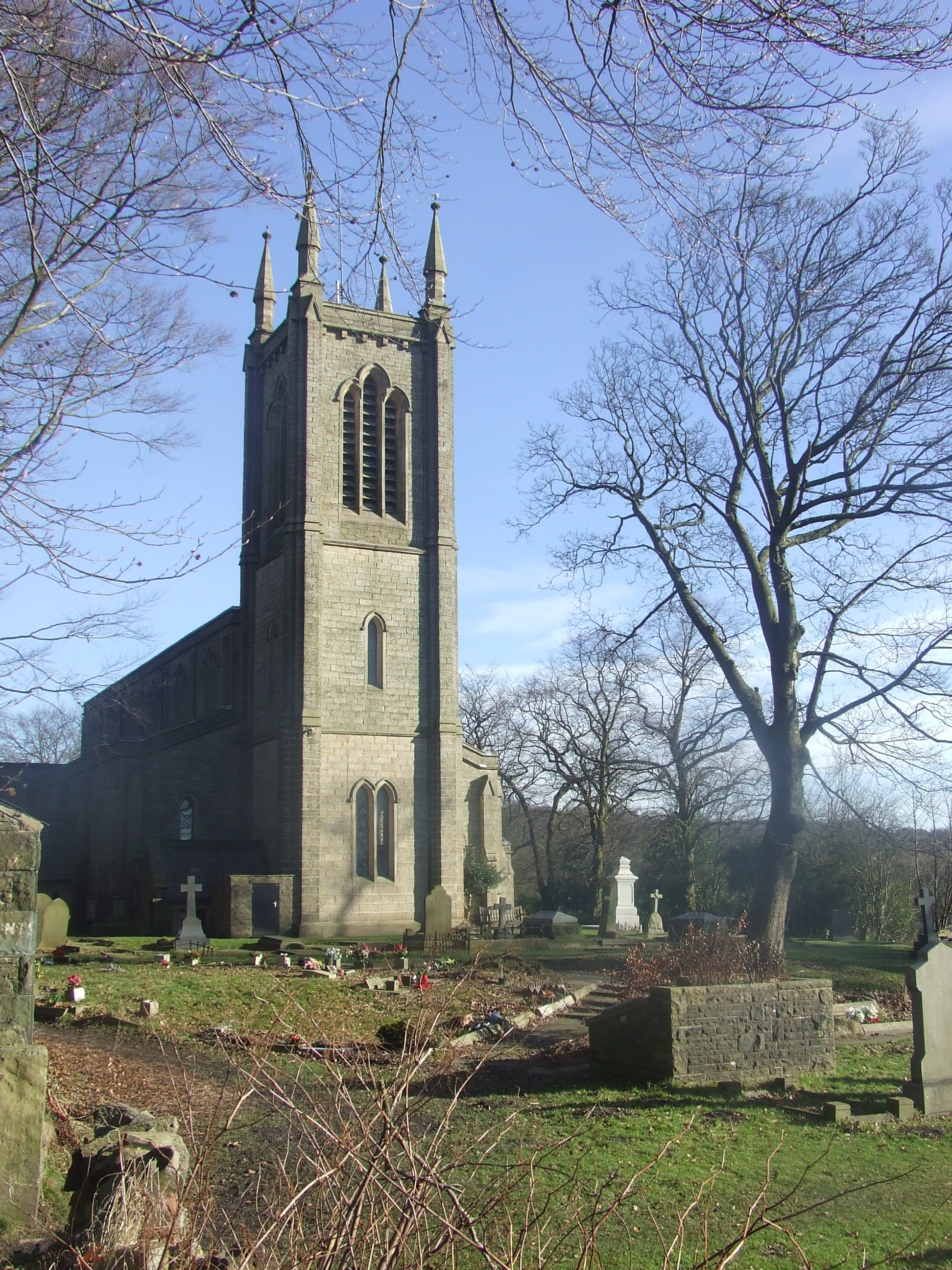 Christ Church parish church, Walmsley, Bolton, Greater Manchester, England, seen from the southwest on a cold, sunny winter's morning.